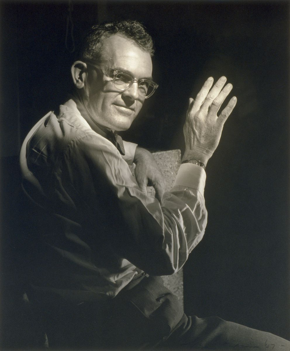 Hal Missingham, photo taken by Max Dupain (1911-1992) in 1947.